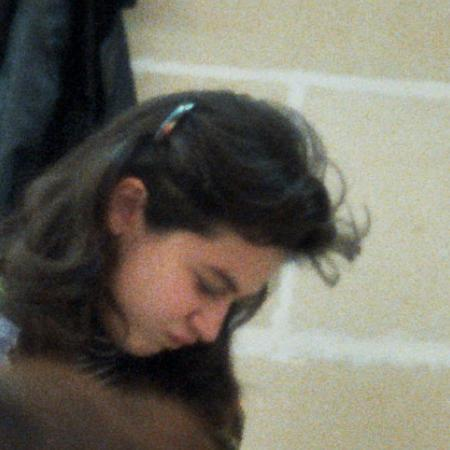 Nana Ioseliani at the Chess Olympiad 1980 in Malta, Photographer Gerhard Hund.